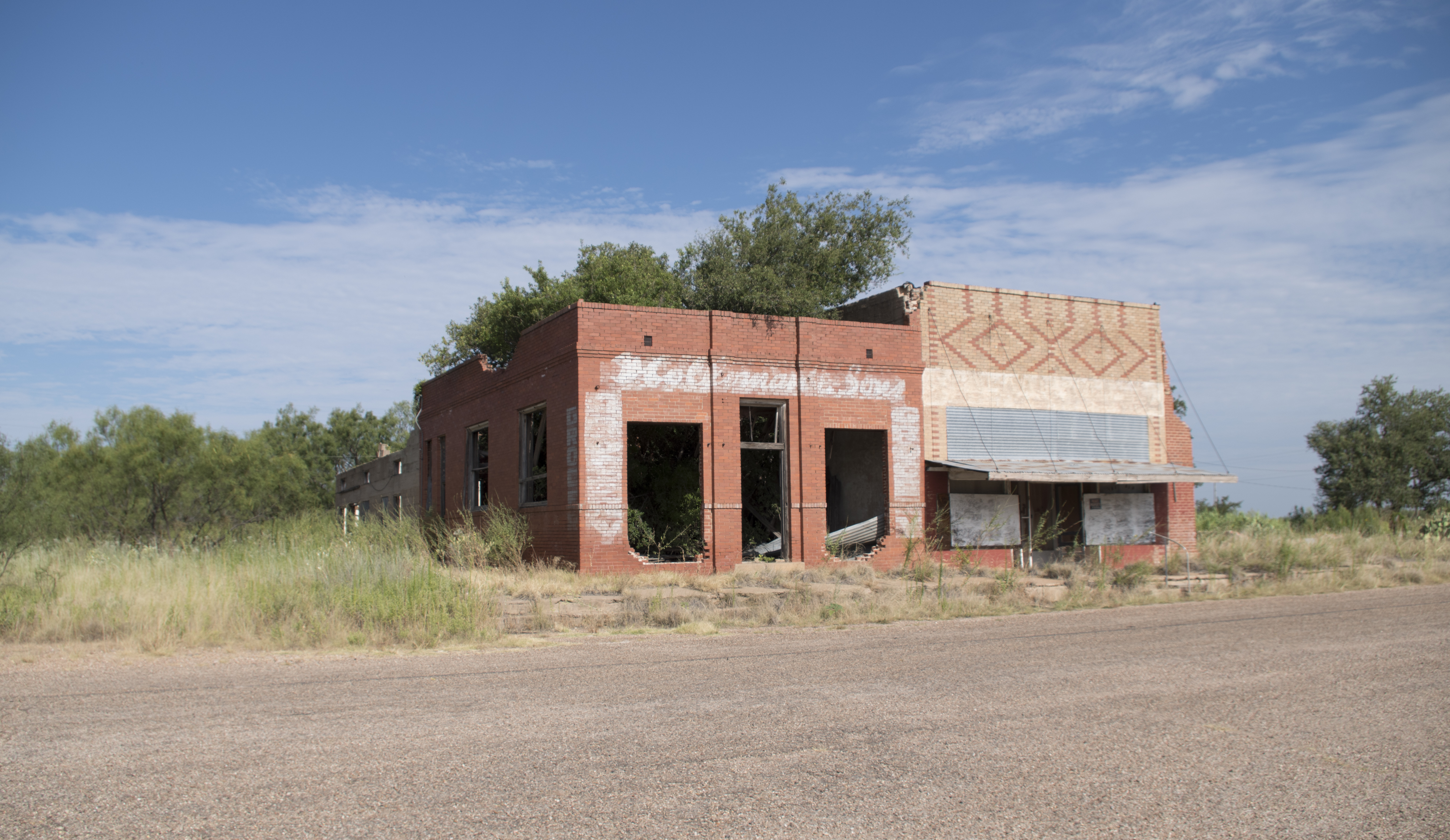 Peacock is a ghost town in Stonewall County, Texas. It lies just to the east of the Salt Fork Brazos River.